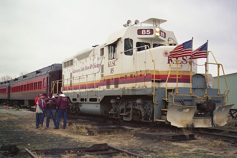 Kalamazoo, Lake Shore and Chicago Railroad GP7u #85 with an excursion train at Paw Paw, Michigan in December 1988